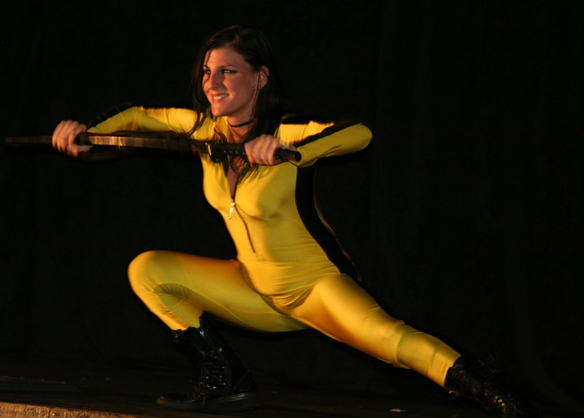 Leva Bates at a Queens of Combat show in March 2014.